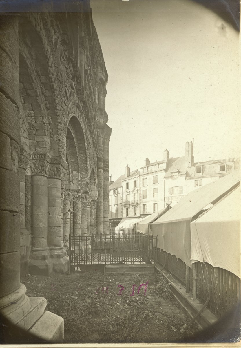 Notre Dame la Grande, Poitiers, France, 1903. Exterior.[Notre Dame de la Grande. Poitiers; exterior view]. Brooklyn Museum Archives, Goodyear Archival Collection (S03_06_01_003 image 911). Help us map this image by using Suggestify to suggest a location for it.